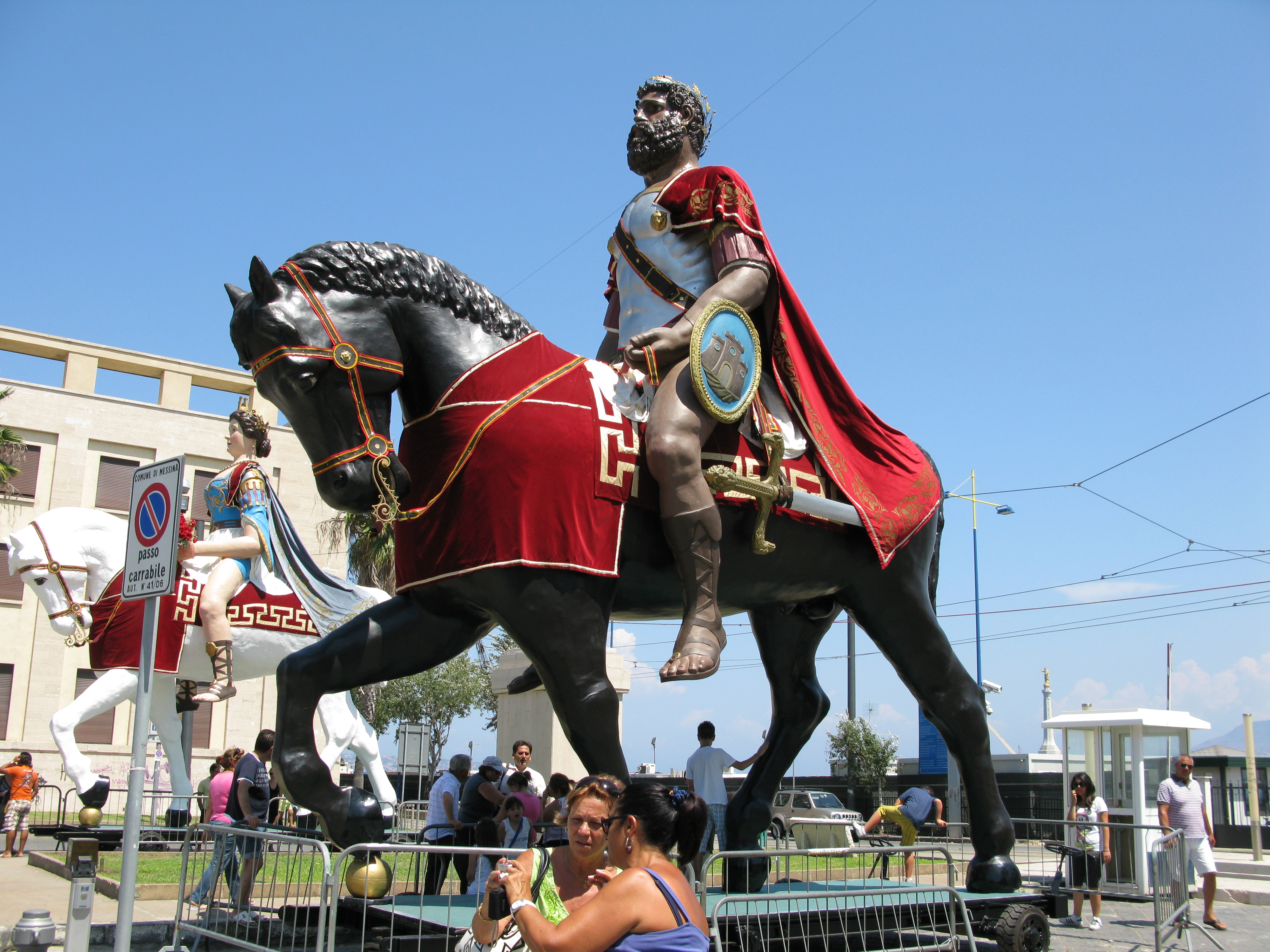 I Giganti di Messina Mata e Grifone ("U Giganti ca Gigantissa")